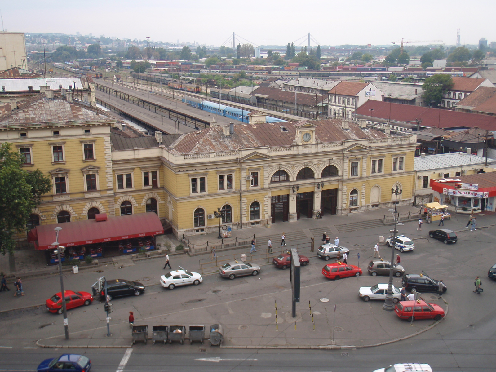 Belgrade Railway Station